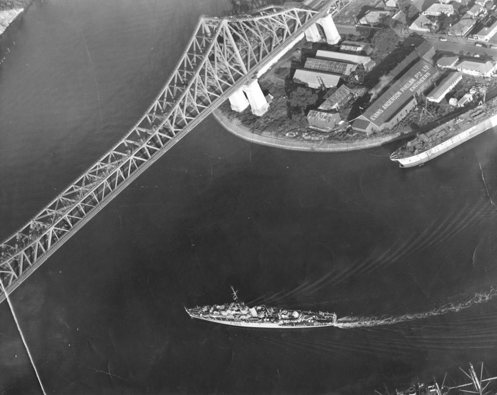 Aerial view of the Story Bridge, 1953. The Royal Australian Navy frigate Hawkesbury is passing under the bridge. (Description supplied with photograph.).